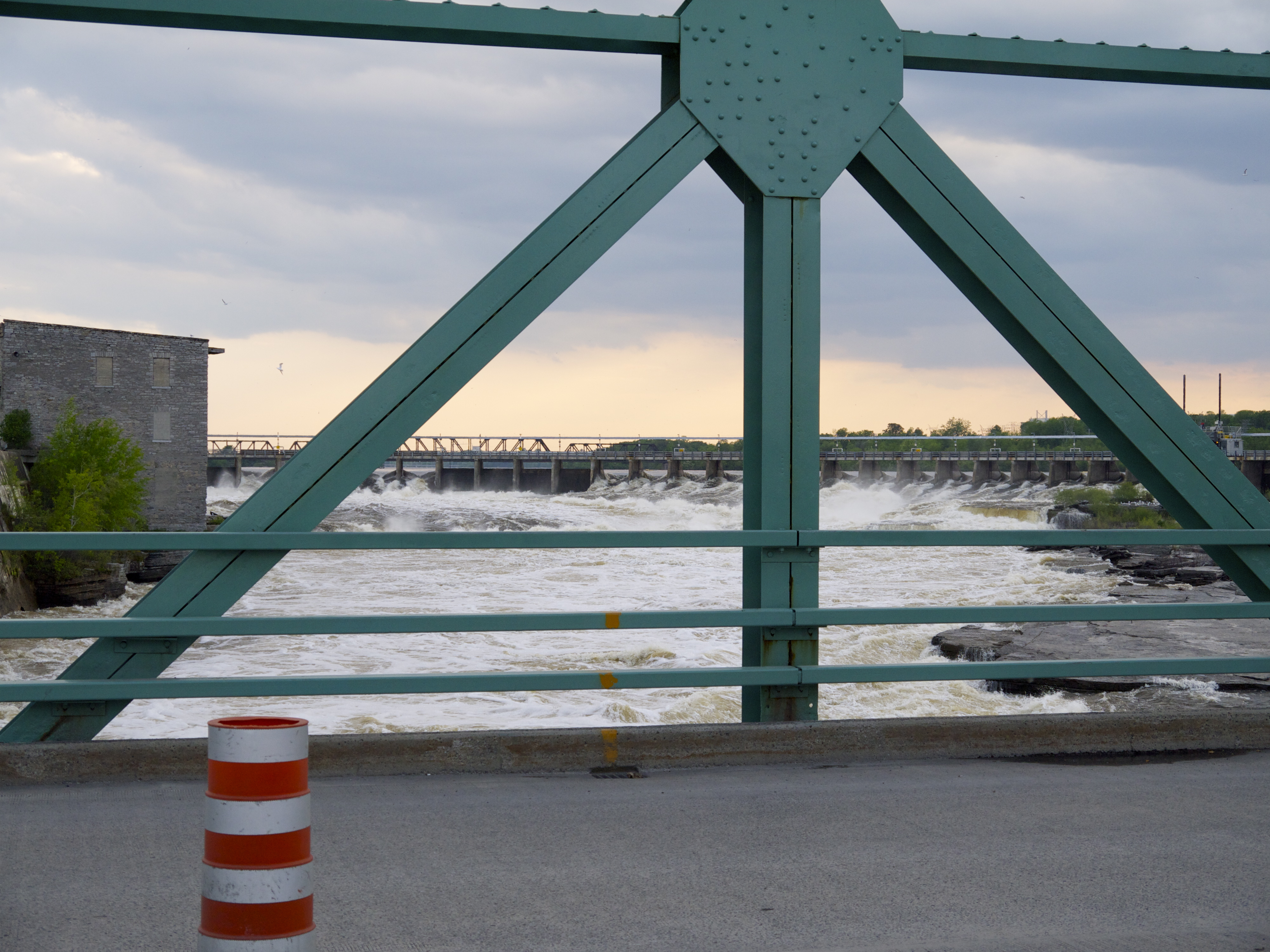 Looking west from Chaudière Bridge across Ottawa River, in Ottawa, Ontario.